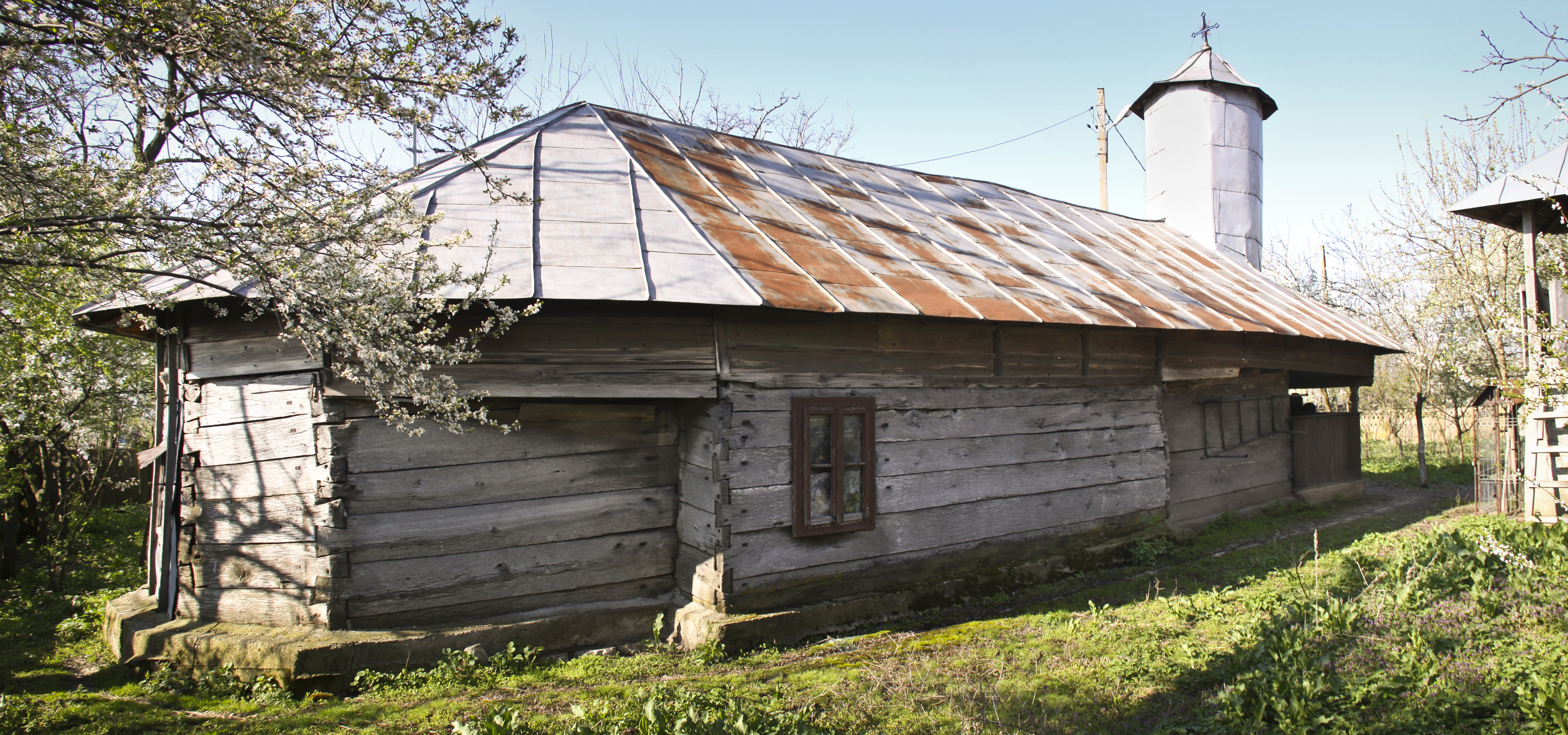 Teleormanu, Teleorman county, Romania: the wooden church.